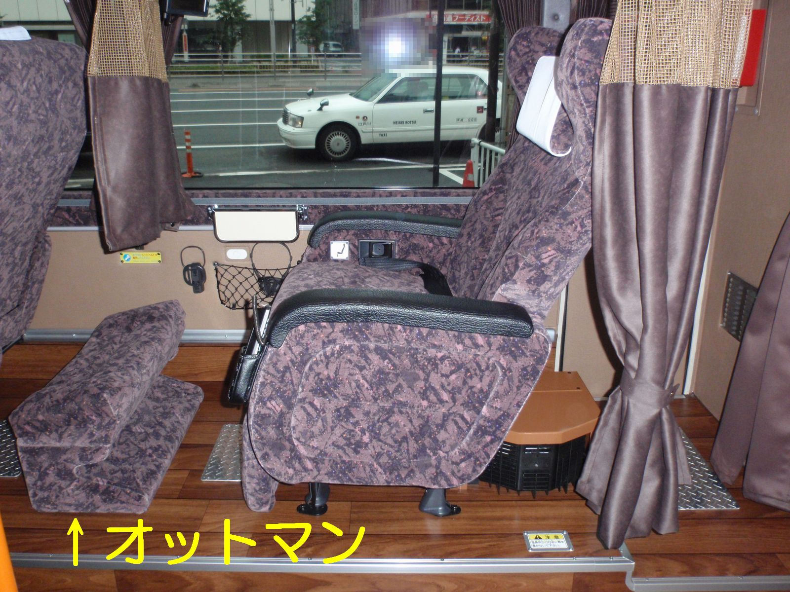 Premium Seat of JR Bus Kanto(Reclining off)